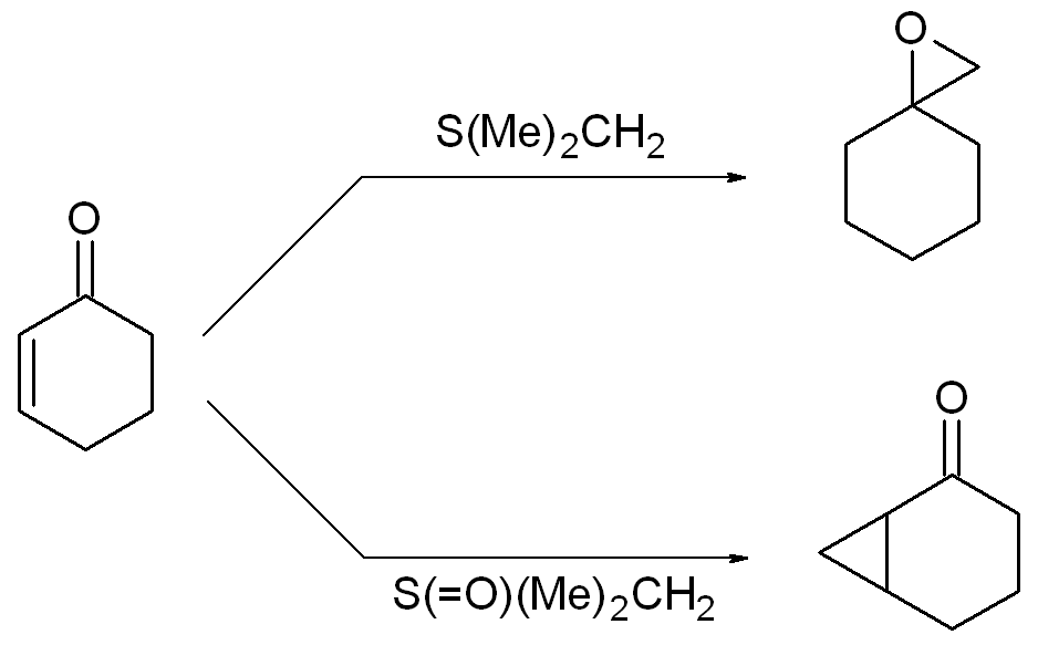 Johnson-Corey-Chaykovski reaction with an enone: difference in reactivity between a sulfonium ylide and a sulfoxonium ylide